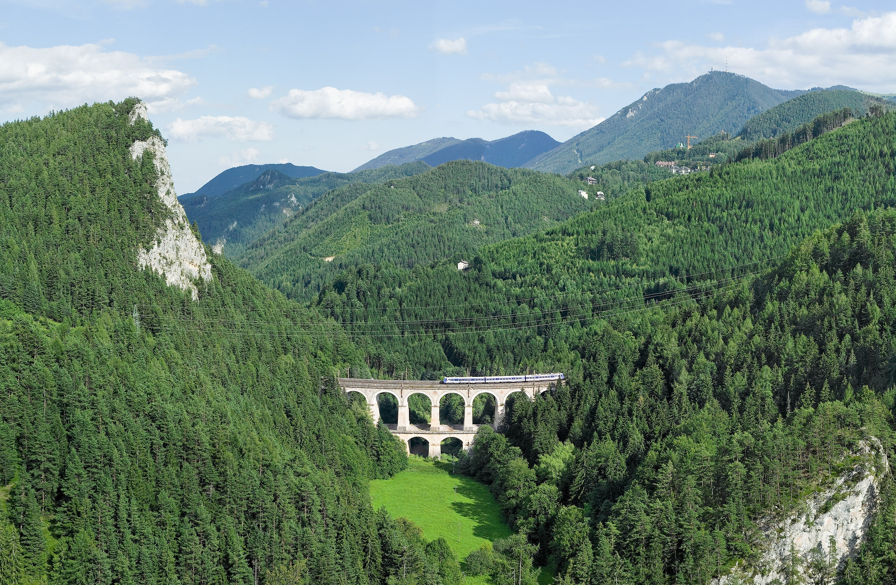 Semmering railway